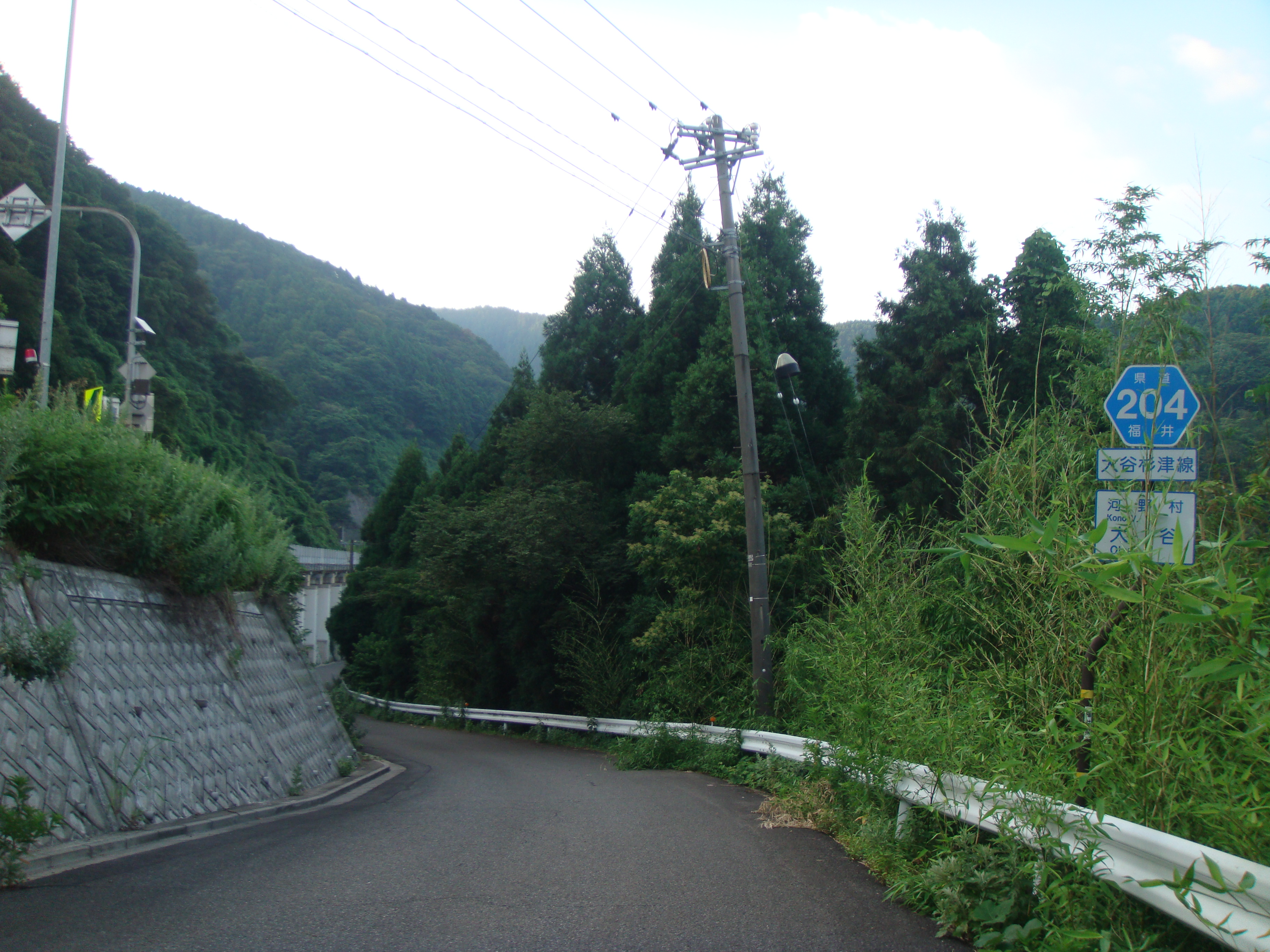 The Fukui Prefectural Road Route 204 Otani-Suizu Line in Otani, Minamiechizen Town